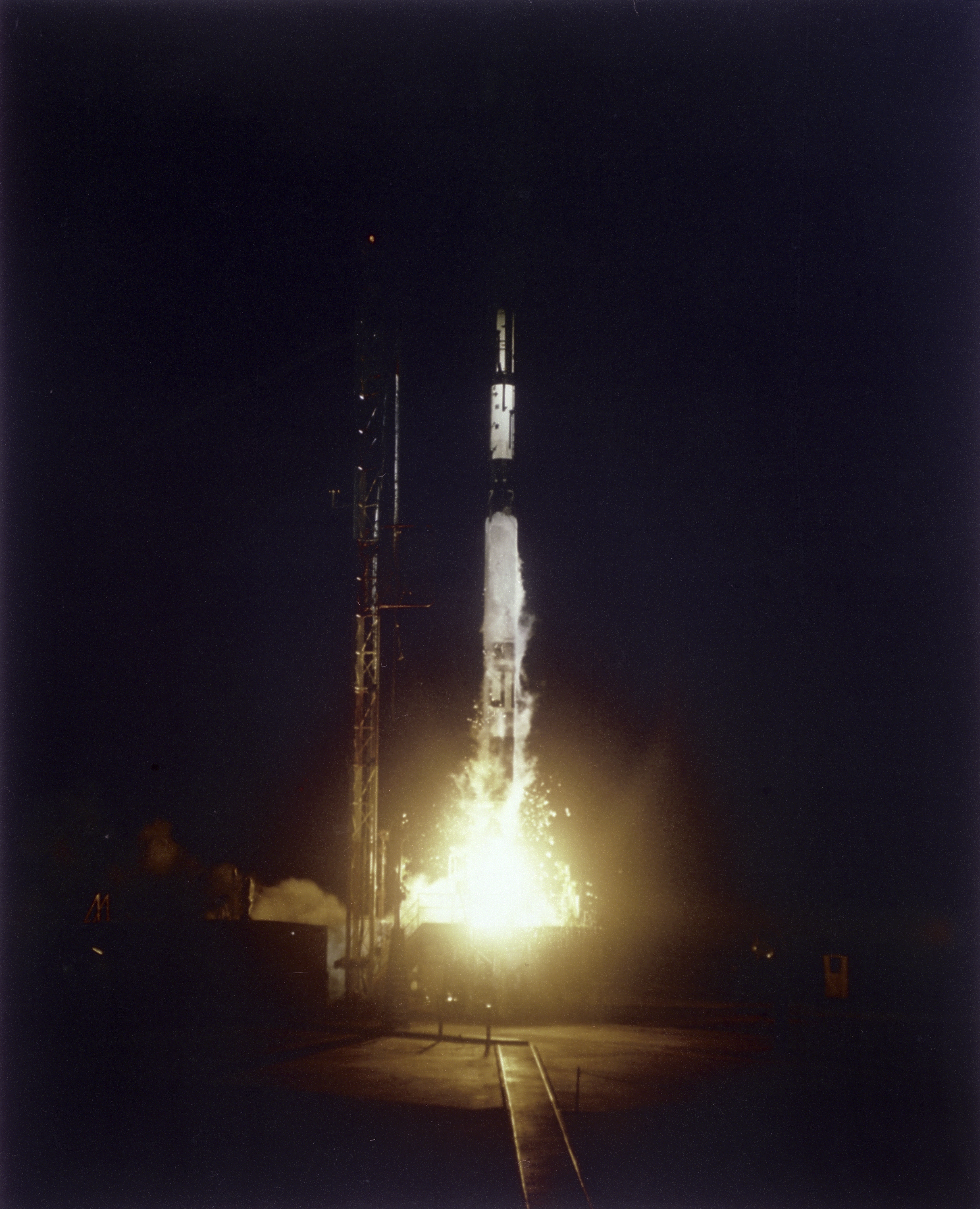 Full Description: Launch of a three-stage Vanguard (SLV-7) from Cape Canaveral, Florida, September 18, 1959. Designated Vanguard III, the 100-pound satellite was used to study the magnetic field and radiation belt. In September 1955, the Department of Defense recommended and authorized the new program, known as Project Vanguard, to launch Vanguard booster to carry an upper atmosphere research satellite in orbit. The Vanguard vehicles were used in conjunction with later booster vehicle such as the Thor and Atlas, and the technique of gimbaled (movable) engines for directional control was adapted to other rockets.